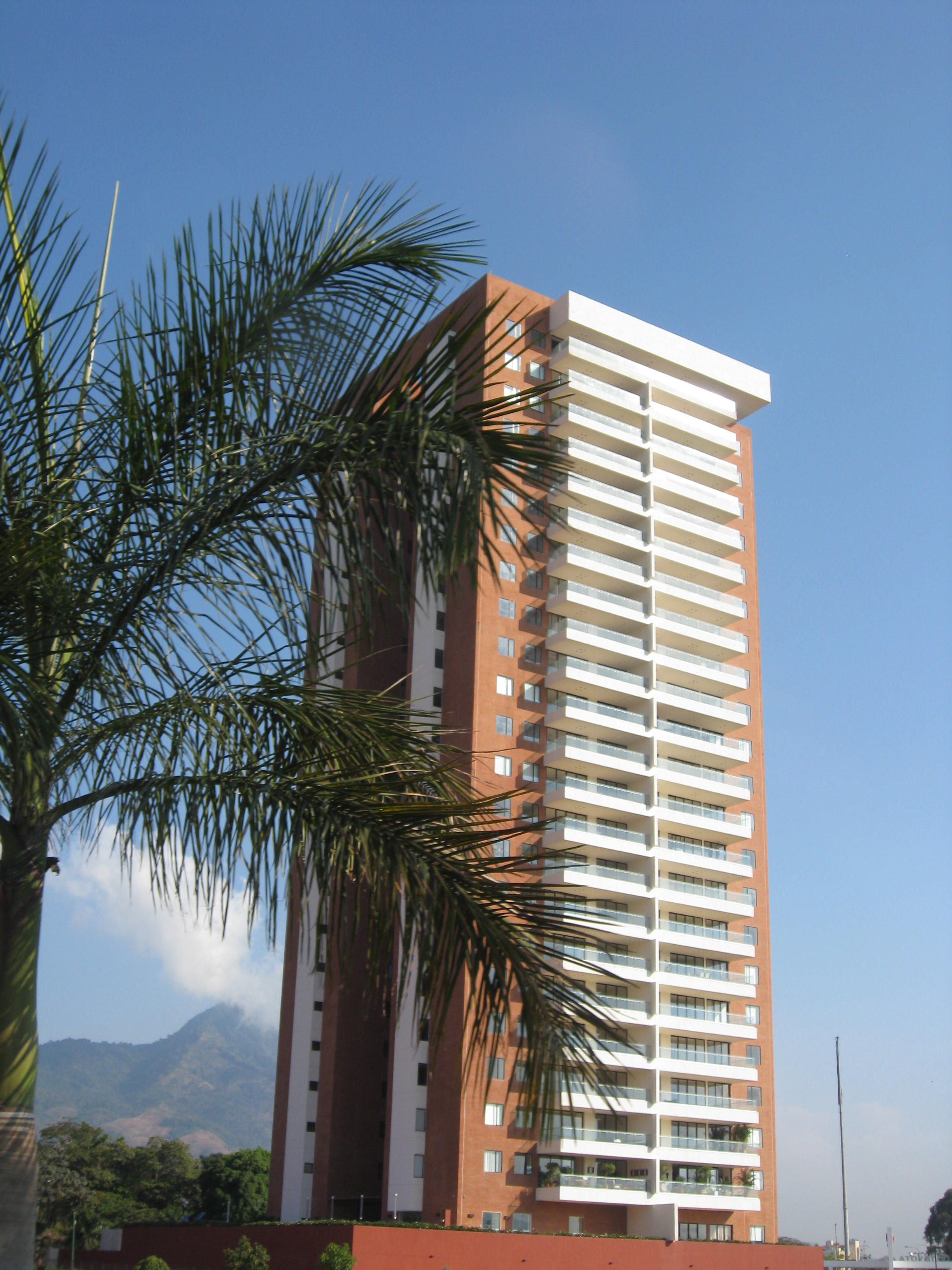 El Pedregal Skyscraper at Multiplaza Mall